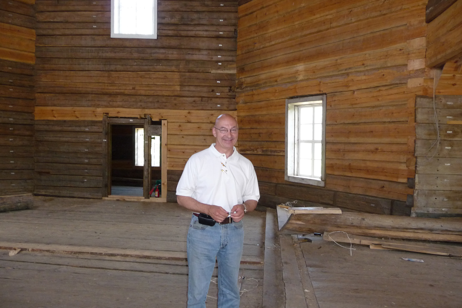 Architect-restorer AV Popov in the reestablishing by him Church of Elijah the Prophet in_Tsipino_Pogost. About Ferapontov Monastery, Vologodskaya oblast, Russia.